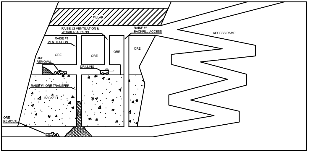 The stope is then filled with waste rock to replace the mined out ore to support the stope walls, and to provide an elevated floor for the miners and equipment to further extract ore from the deposit